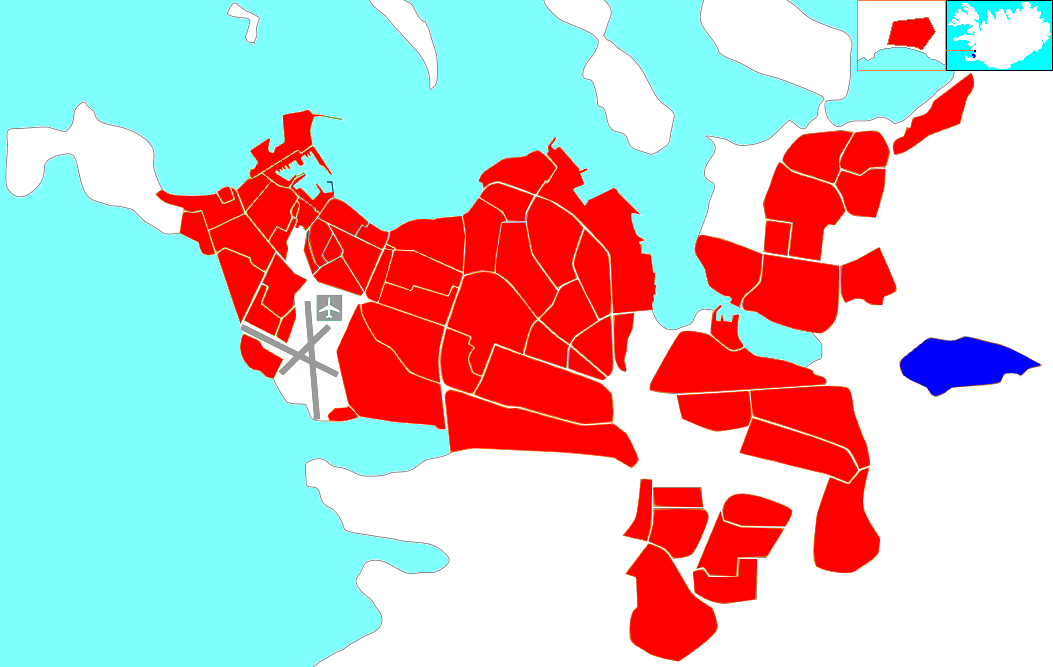 Locator map of the district Grafarholt og Úlfarsárdalur (blue) within the municipality of Reykjavik (red).